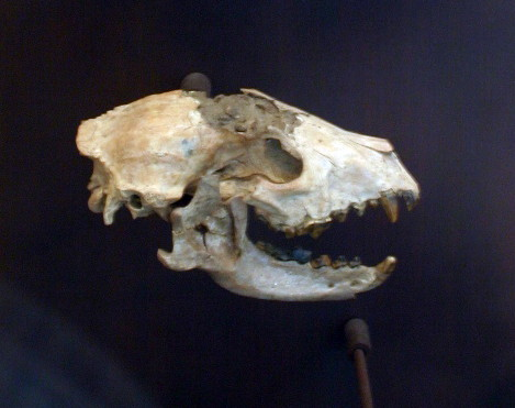 Fossil Tomarctus temerarius skull on display in the American Museum of Natural History in New York.